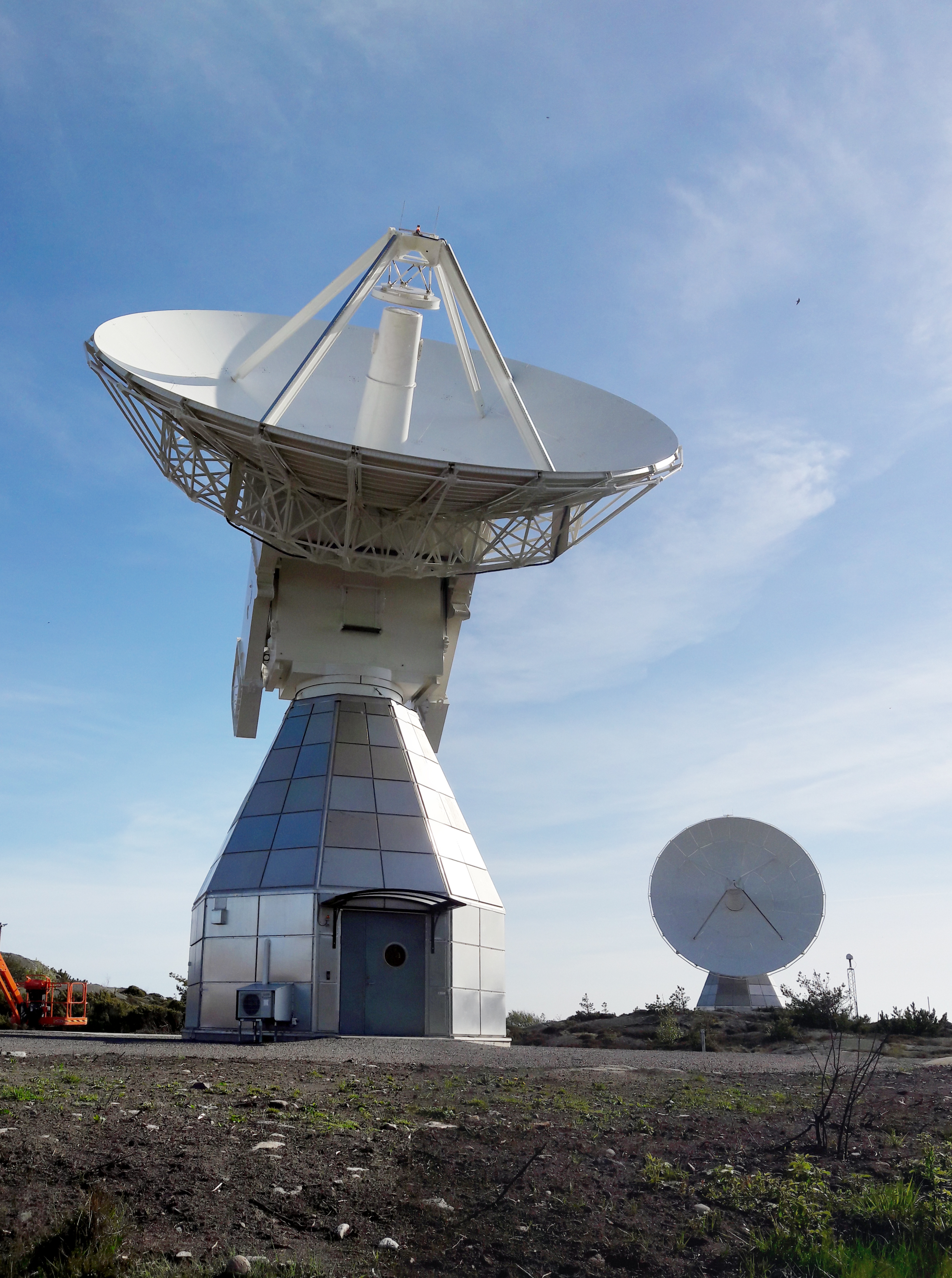 Onsala Twin Telescopes. Two 13.2-metre antennas for space geodesy.